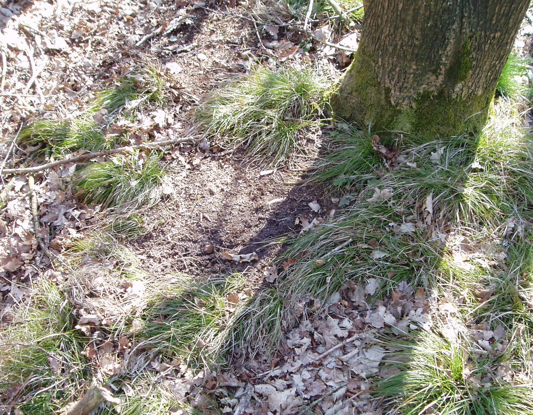 The sleeping place of a Roe Deer.